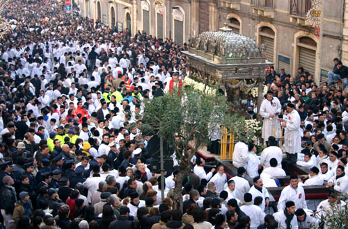 Santagataprocessione